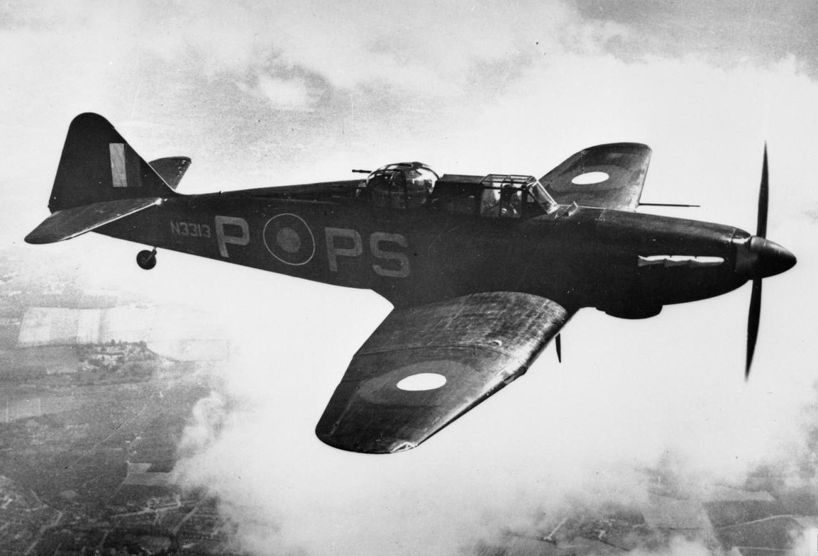 A Royal Air Force Boulton Paul Defiant Mark I night fighter (s/n N3313, "PS-P") of No. 264 Squadron RAF based at West Malling, Kent (UK), in flight.